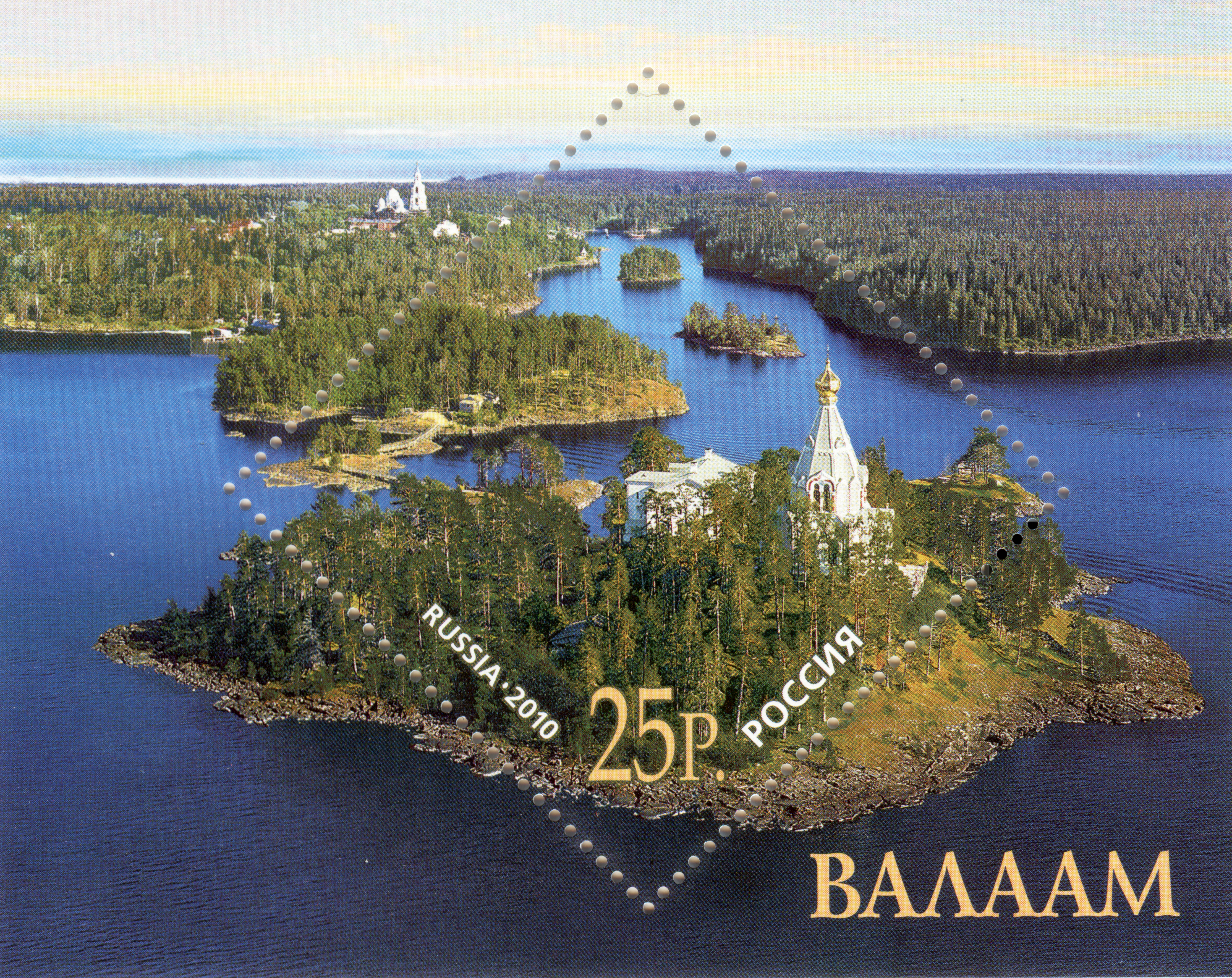 Historical and Cultural Heritage of Russia - Valaam